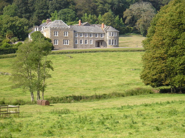 Penrose House. Penrose House is a 17th.century building at the head of the Loe Pool within the Penrose Estate near Helston.